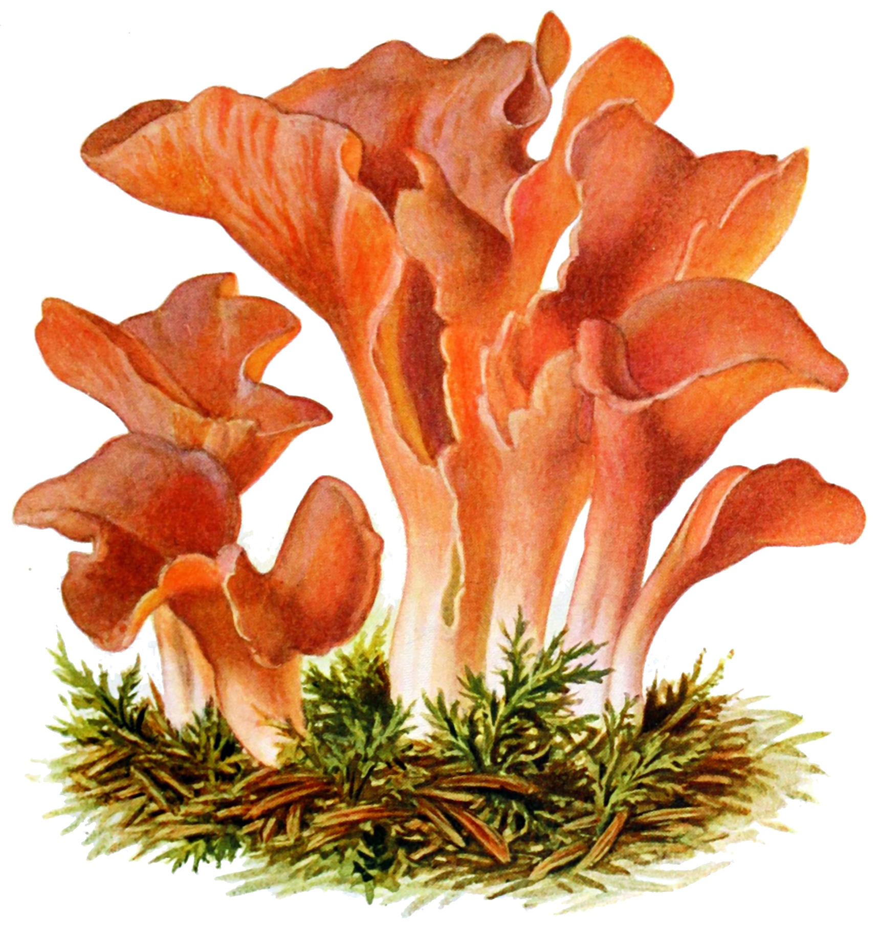 Tremiscus helvelloides.